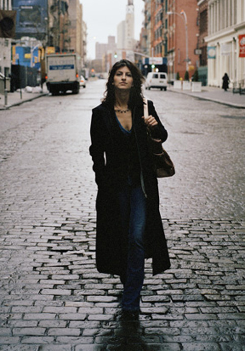 Photo of blogger Melissa Lafsky taken by Kwaku Alston.